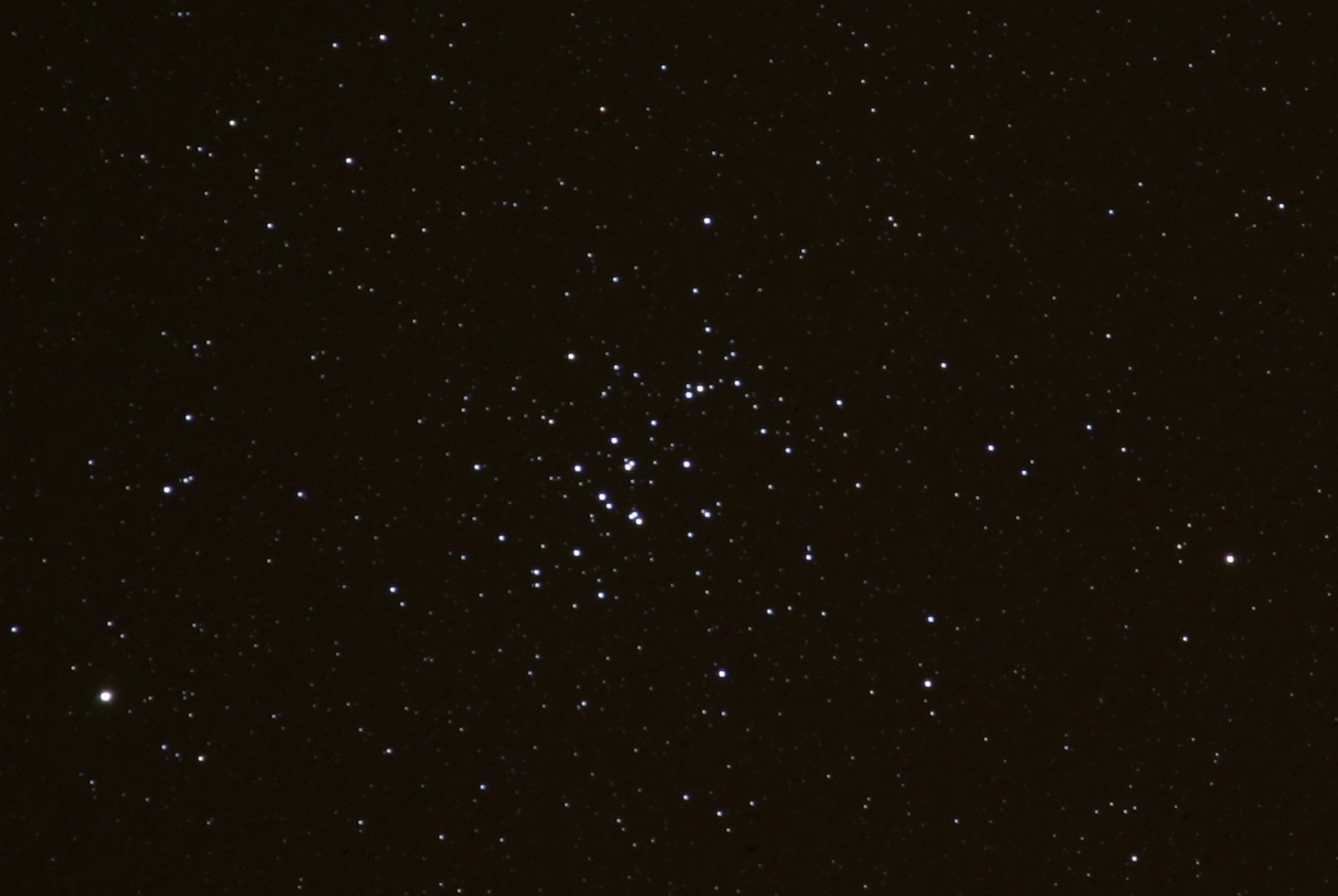 Messier M44 an open cluster in the constellation cancer.